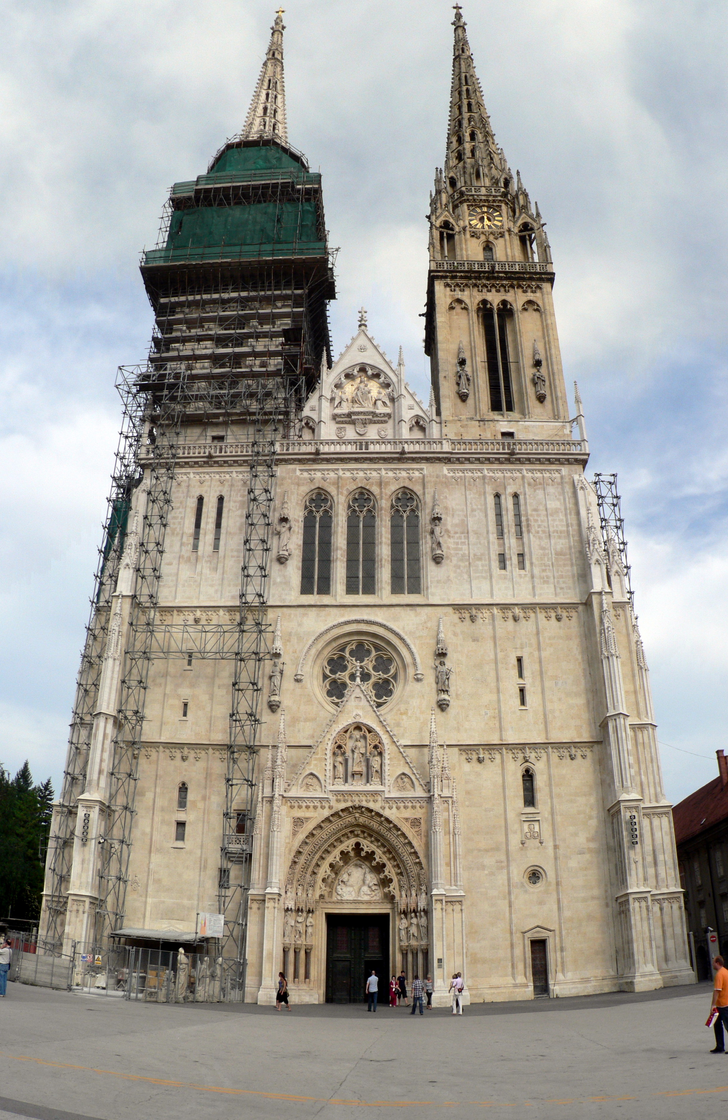 Zagreb Cathedral